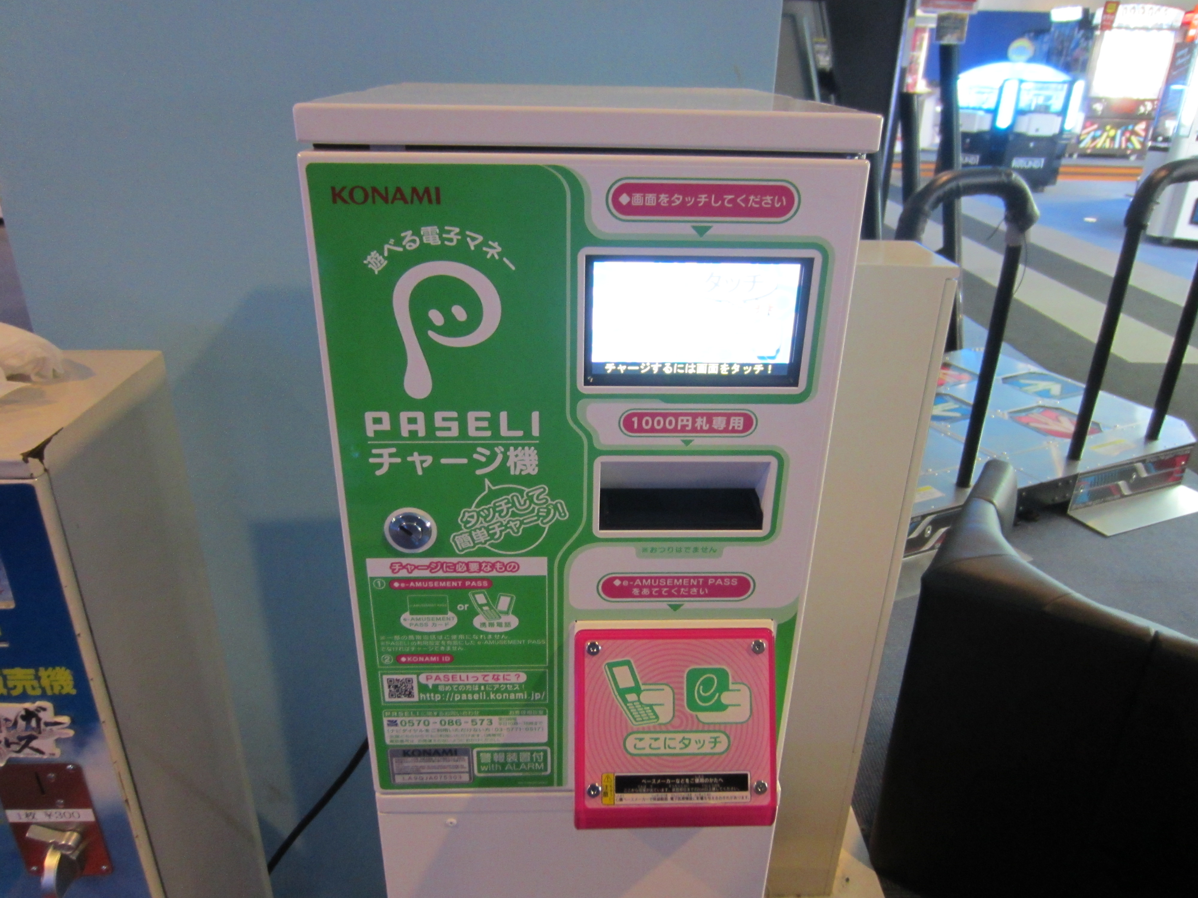 Paseli credit machine.